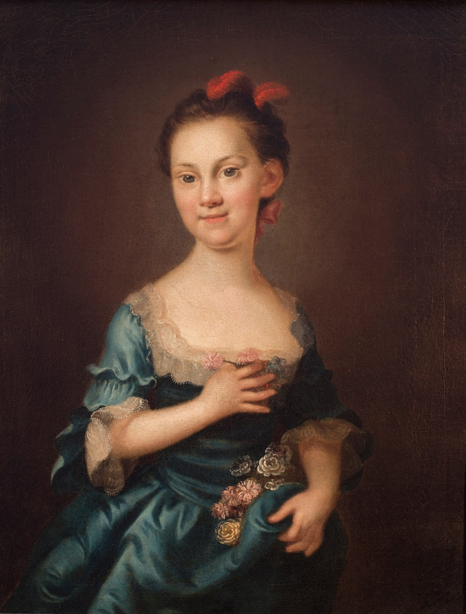 Judith Smith (1766–1820), wife of South Carolina lieutenant governor James Ladson, as a child in 1767